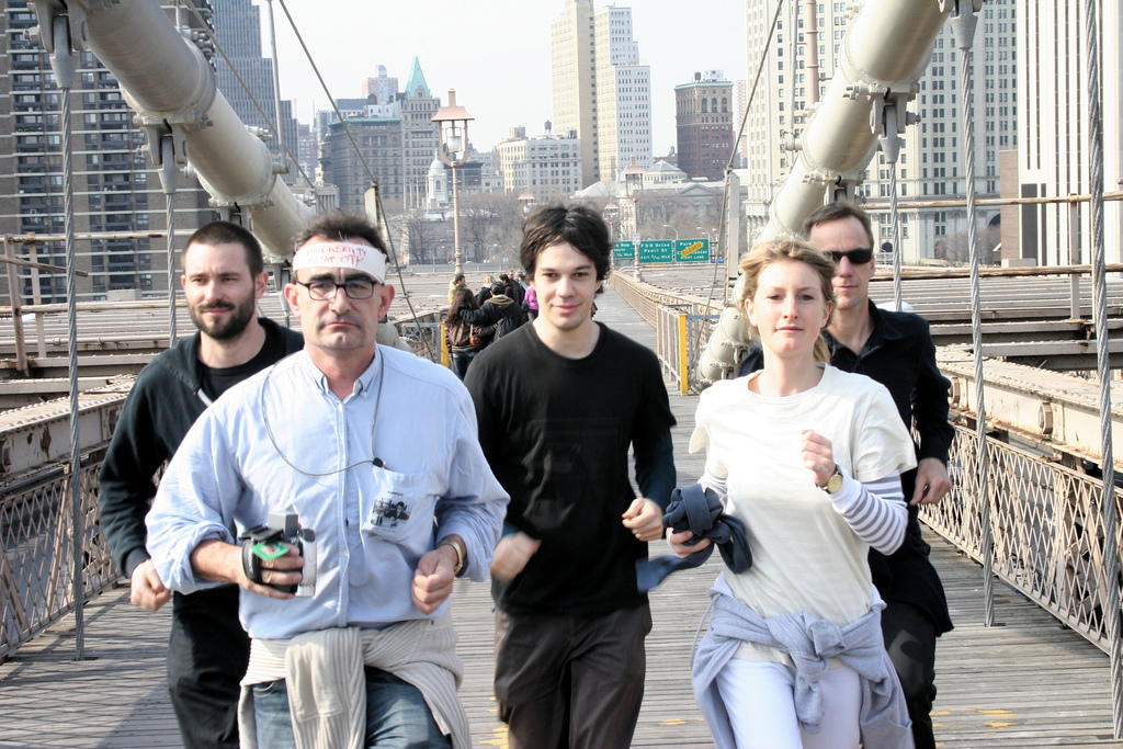 Critical Run in New York City